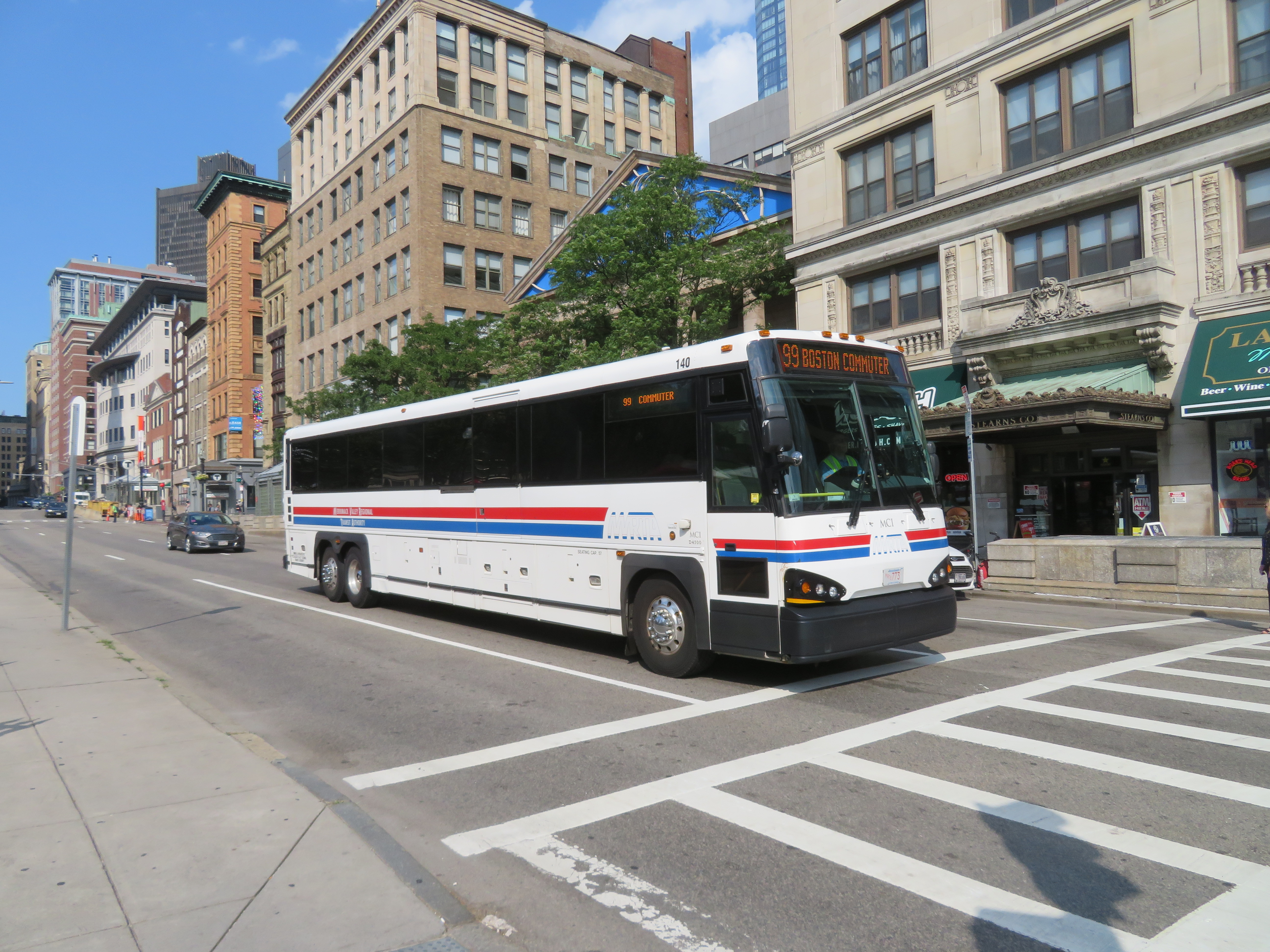 MVRTA route 99 bus on Tremont Street at Park Street station in July 2019